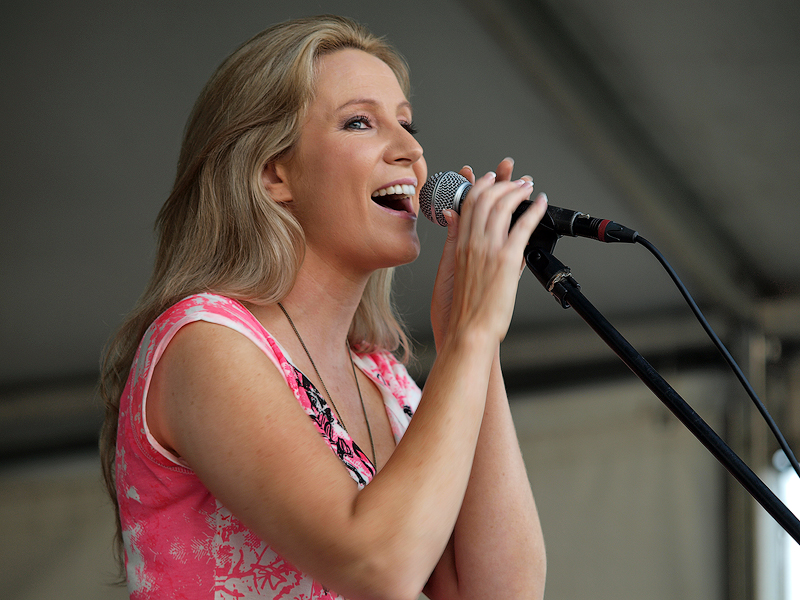 Dianna Corcoran performing at the concert for a cure 20.3.10